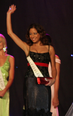 Miss Netherlands Carmen Kool during Miss World 08